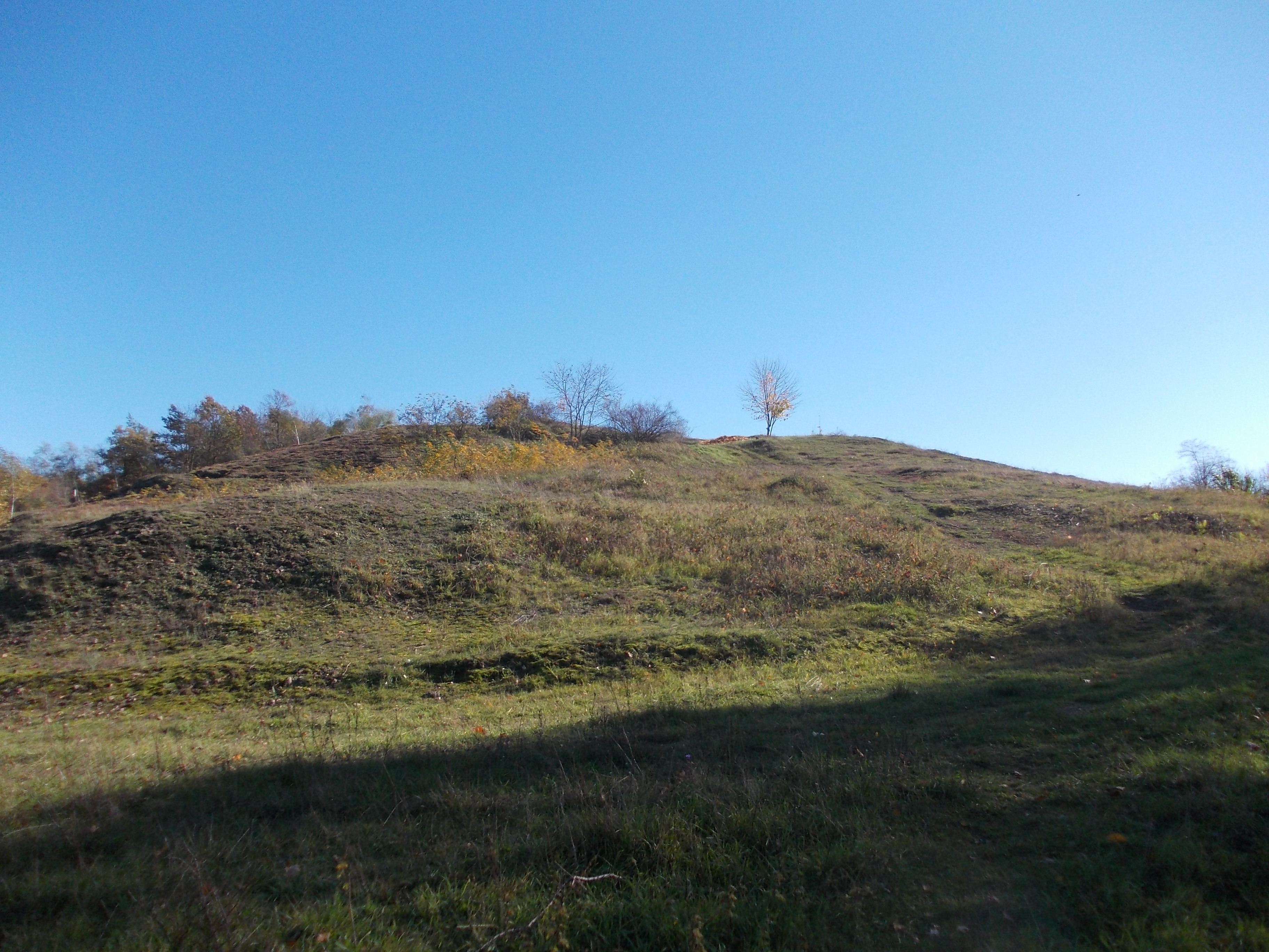 Brandberge hills in Halle/Saale (Saxony-Anhalt)